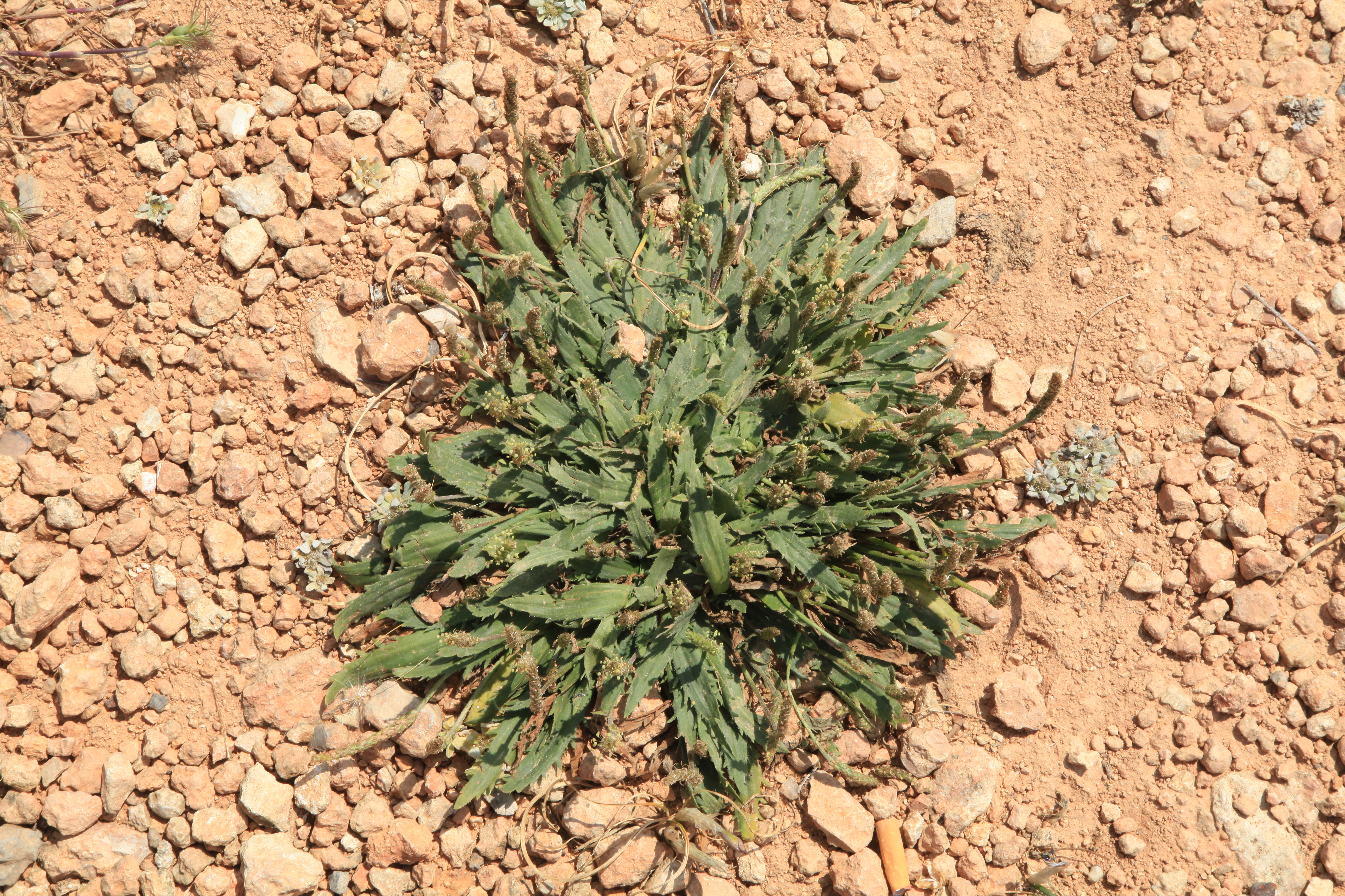 Plantago serraria growing at Triq Għajn Tuffieħa in the Għajn Tuffieħa nature reserve in Mġarr, Malta